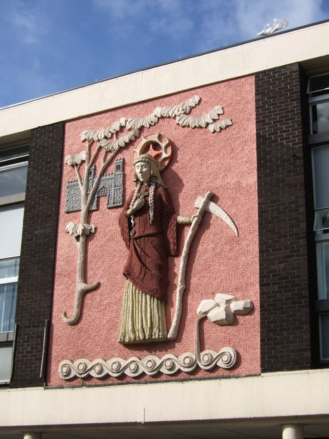 St Sidwell A relief of St Sidwell (Sativola in Latin), Exeter's patron saint, beheaded with a scythe in about 740 AD. Below the scythe she holds is a well associated with her (water pours from it into the stream along the foot of the monument); Well Street, a little way north, is the supposed location. This representation is on the side of a very plain shopping arcade at the southwestern end of Sidwell Street.